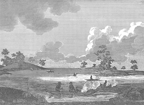 An illustration from The Voyage of Governor Phillip to Botany Bay Original caption: View in Port Jackson